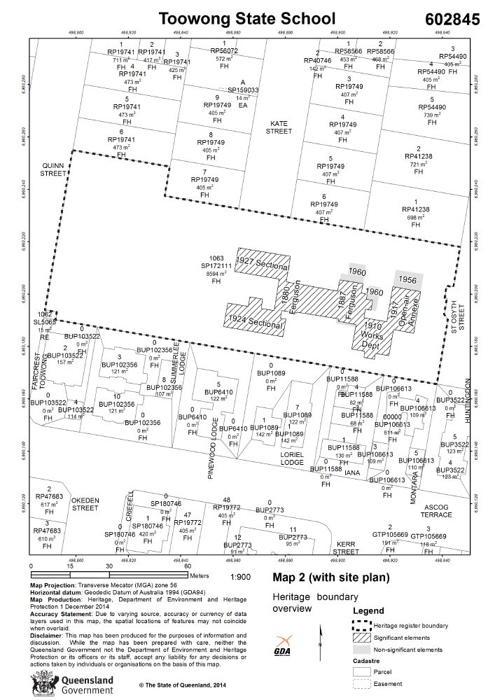 Toowong State School - boundary map 2 (2014)